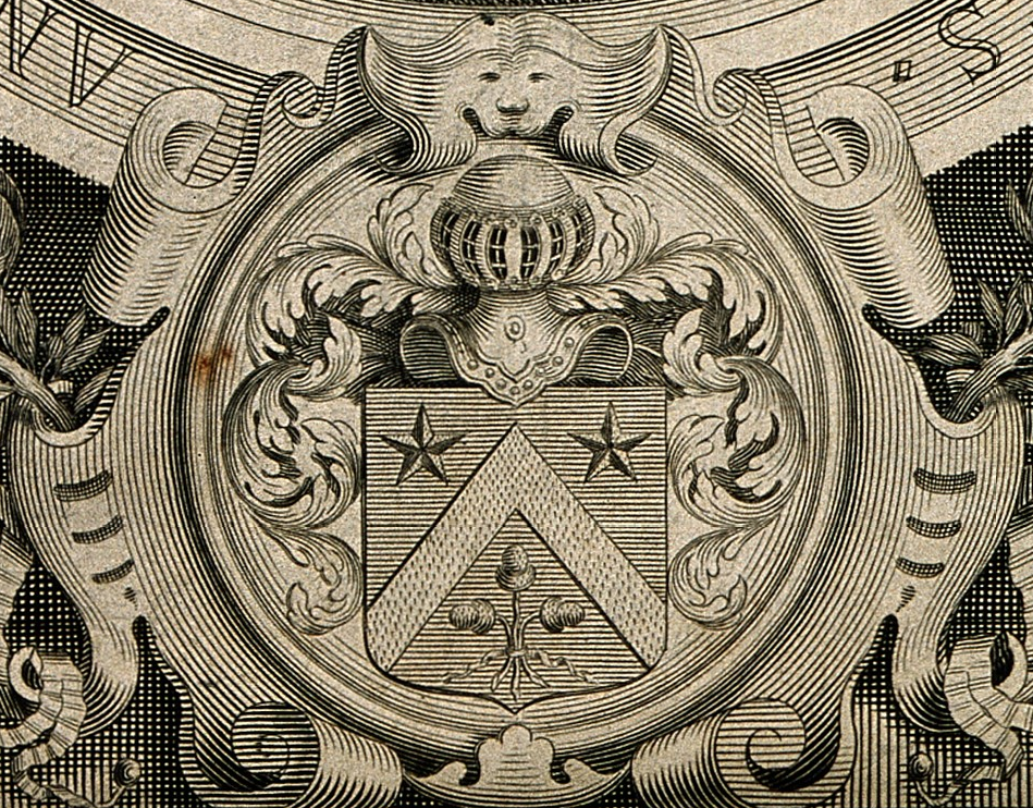 Detail from Antoine Vallot. Line engraving by J. Grignon. Iconographic Collections Keywords: portrait prints; Antoine Vallot; engravings